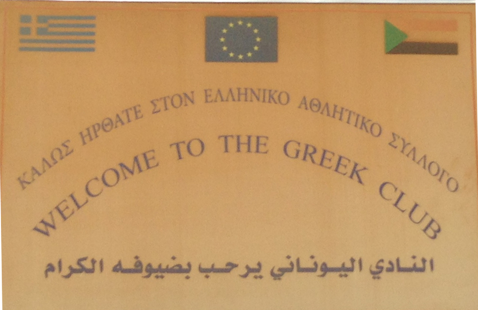 Welcome sign at the Hellenic Athletics Club (H.A.C.) in Khartoum, Sudan